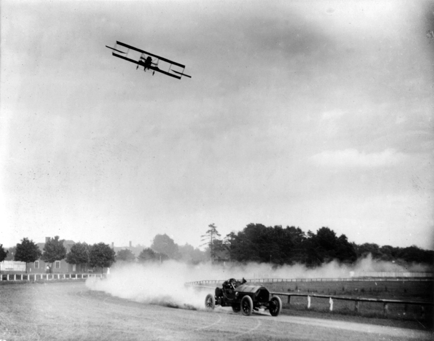 Lincoln Beachey (in plane) racing against Barney Oldfield (in automobile).